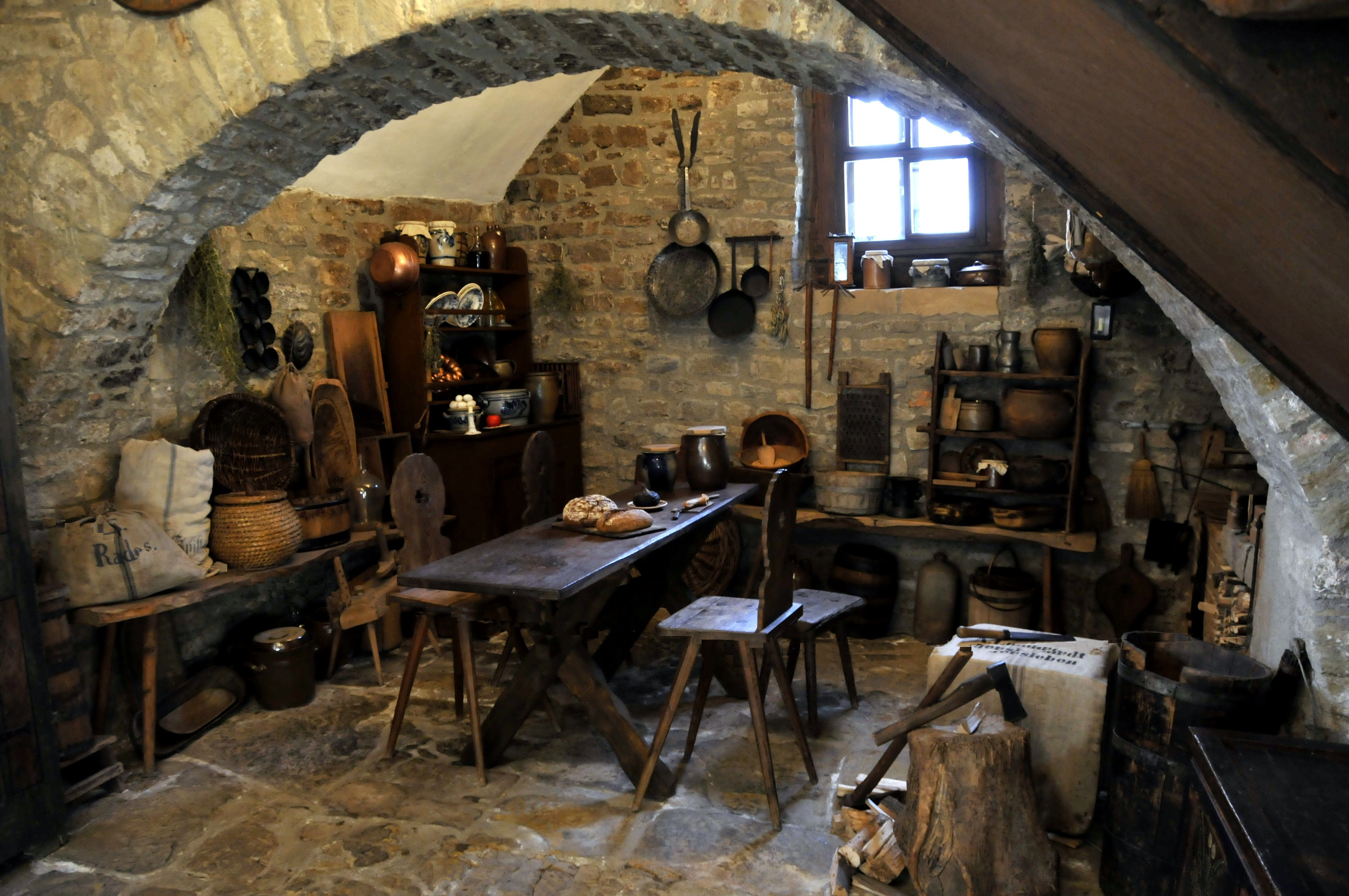 Ingersleben, museum of local historty, "the black kitchen"